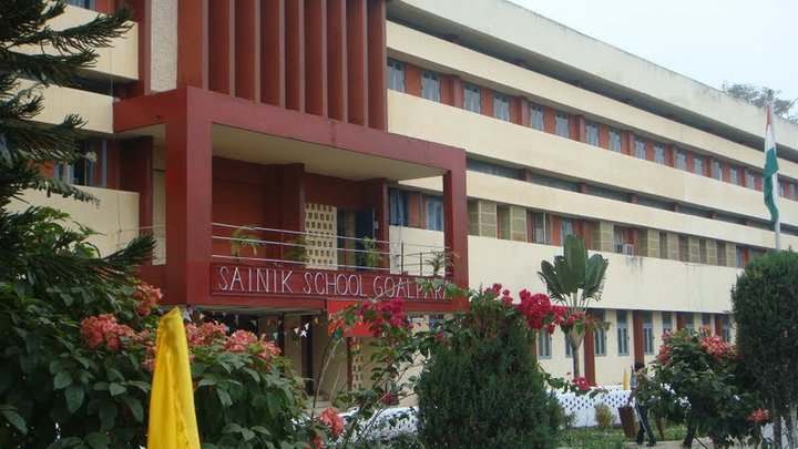 front view of the school building